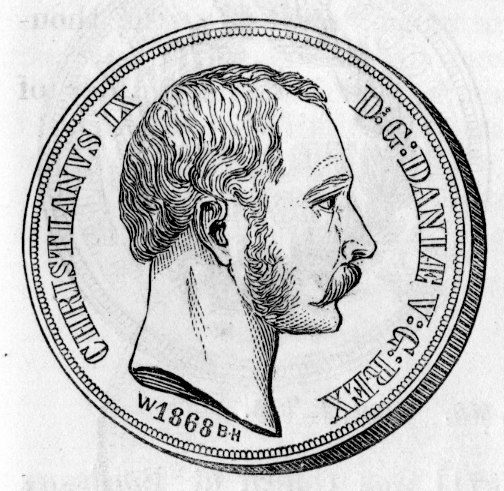 A Danish silver two rigsdaler piece of 1868, with the head of Christian IX. "Weight .927, fineness 877. Value 4s 3/8d." Obverse shown CHRISTIANVS IX D:G: DANIÆ V:G:REX Bare head right. In ex. W 1868 B•H Note the engraving show "B•H", but on the coin there is "R•H", the initials of Rasmus Hinnerup, mint-master of Copenhagen mint 1891-1869 KM 772